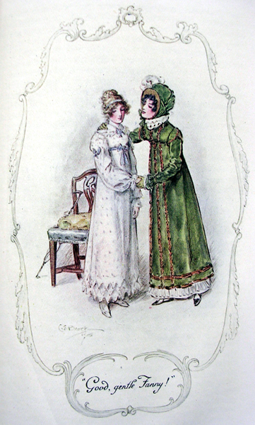 Illustration for ch.36 of Mansfield Park, in the Series of English Idylls, published by J.M Dent & Co. (London) and E.P. Dutton & Co. (New York). “Good, gentle Fanny!”